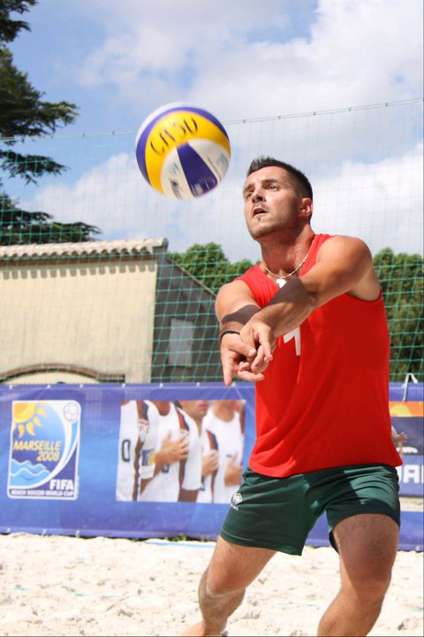 Tournoi International de Beach Volley